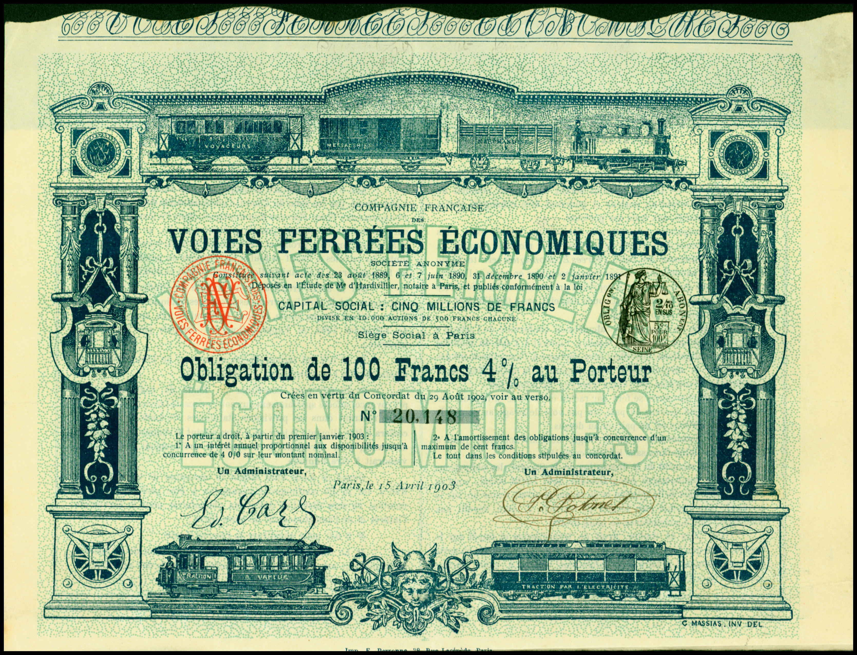 Bond of the Compagnie Française des Voies Ferrées Économiques, issued 15. April 1903